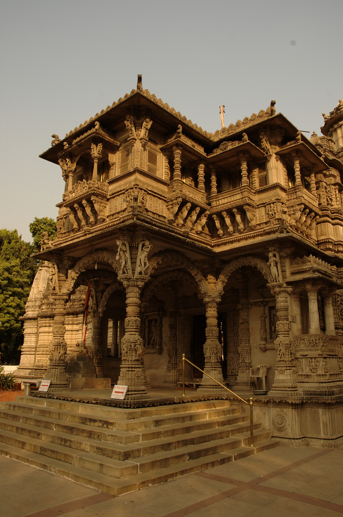 Hatheesing temple in Ahmedabad.